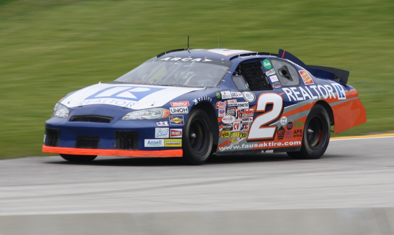 A panning shot of the ARCA Racing Series car of Thomas Praytor at the 2013 Scott 160 race at Road America.